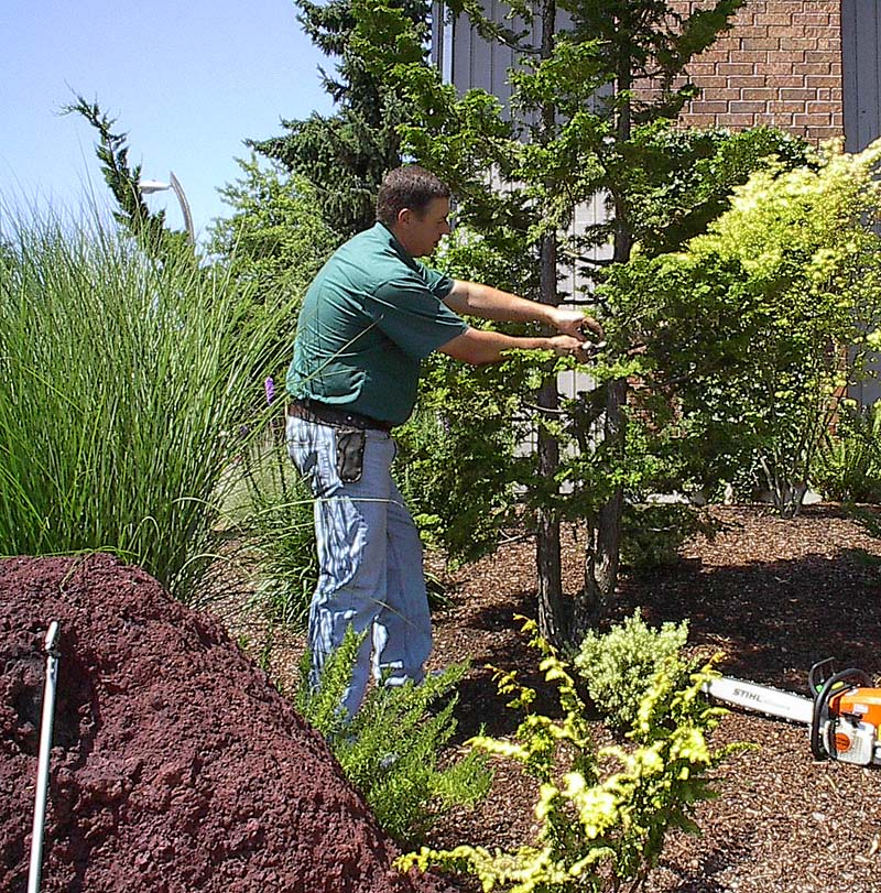 Photo of Oregon Arborist (Certified Arborist & Certified Landscape Technician), M. D. Vaden, a small tree specialist, providing corrective pruning to a Hinoki Cypress in Beaverton, Oregon - in 2002.